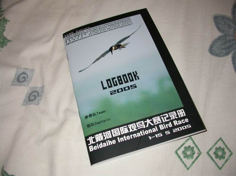 logbook of 2005 beidaihe international birding race.